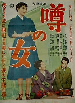 Movie poster for 1954 Japanese movie The Woman in the Rumor aka The Crucified Woman (噂の女 Uwasa no onna).